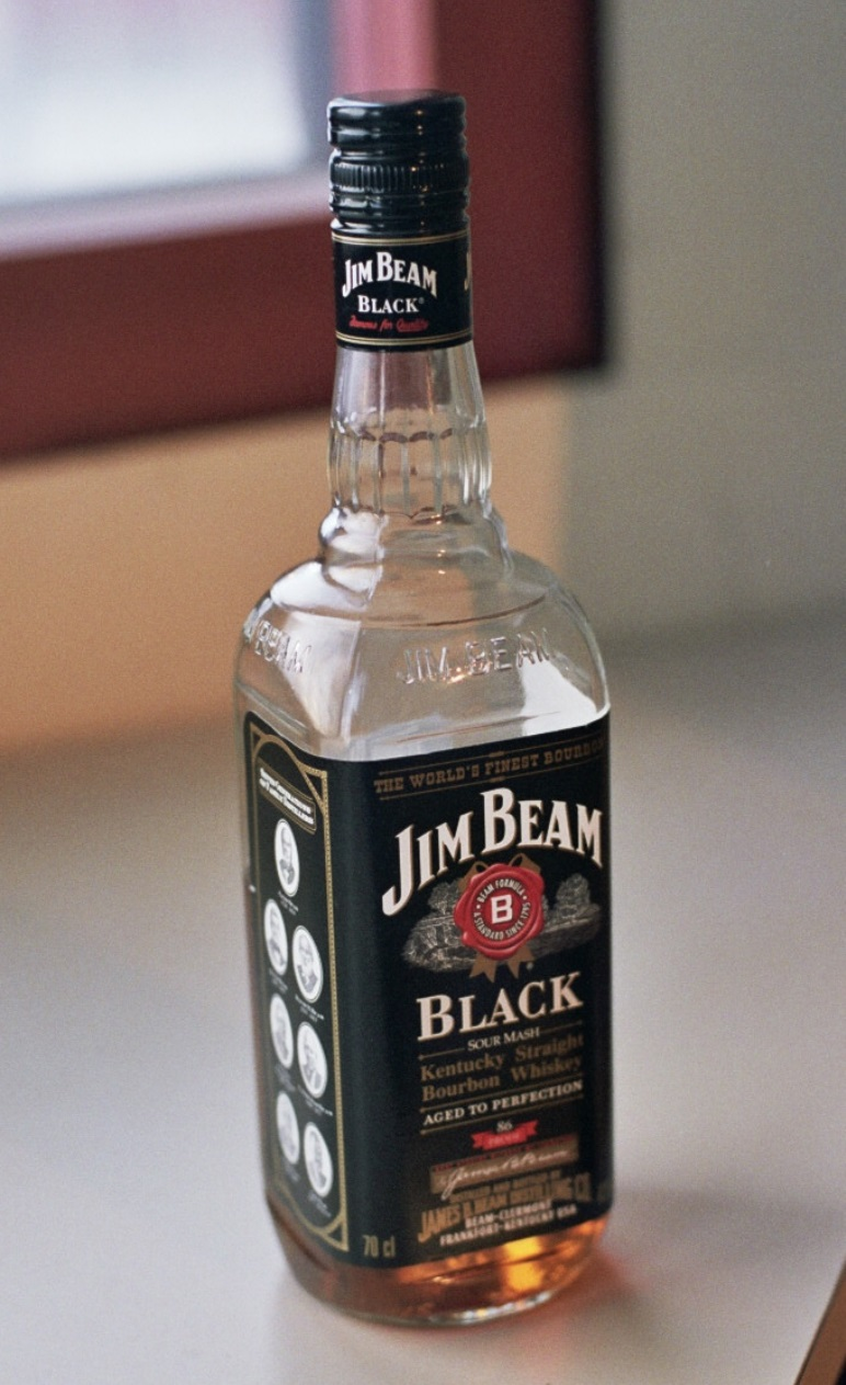 A partially drunk bottle of Jim Beam Black bourbon whiskey in Oulu, Finland.